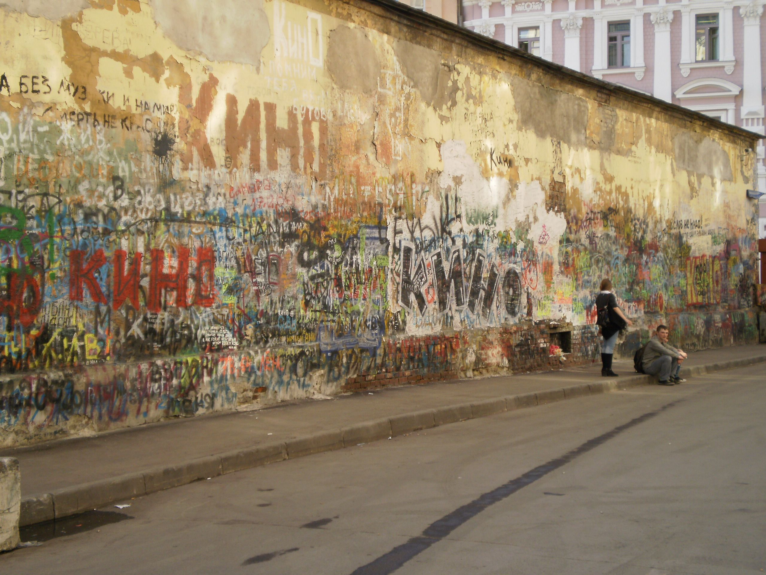 The Tsoi Wall in the Arbat, Moscow